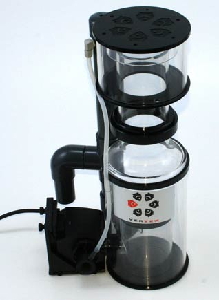 Protein Skimmer, used to help maintain a healthy tank environment for fish and coral.